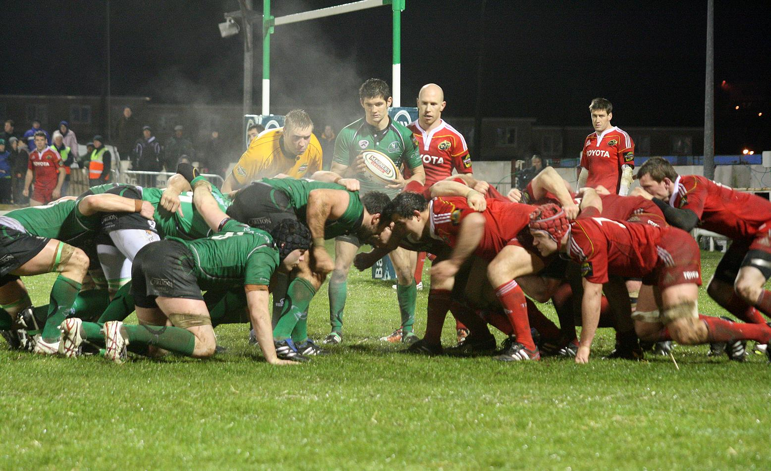 Magners League match, 27/12/2010. Cillian Willis to put into the scrum 5 metres from the Munster line.